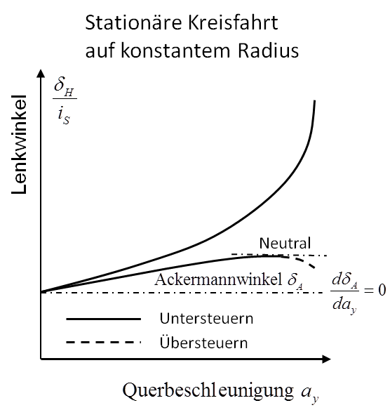 self steering behavior at stationary cornering with constant radius